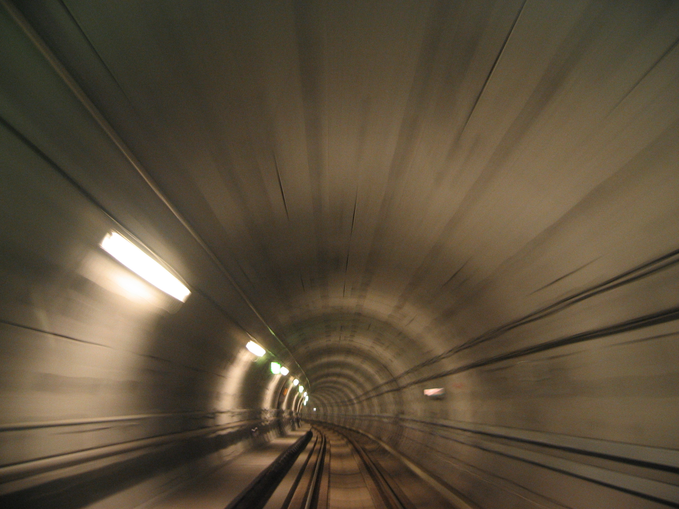 Subway tunnel in Copenhagenuntitled